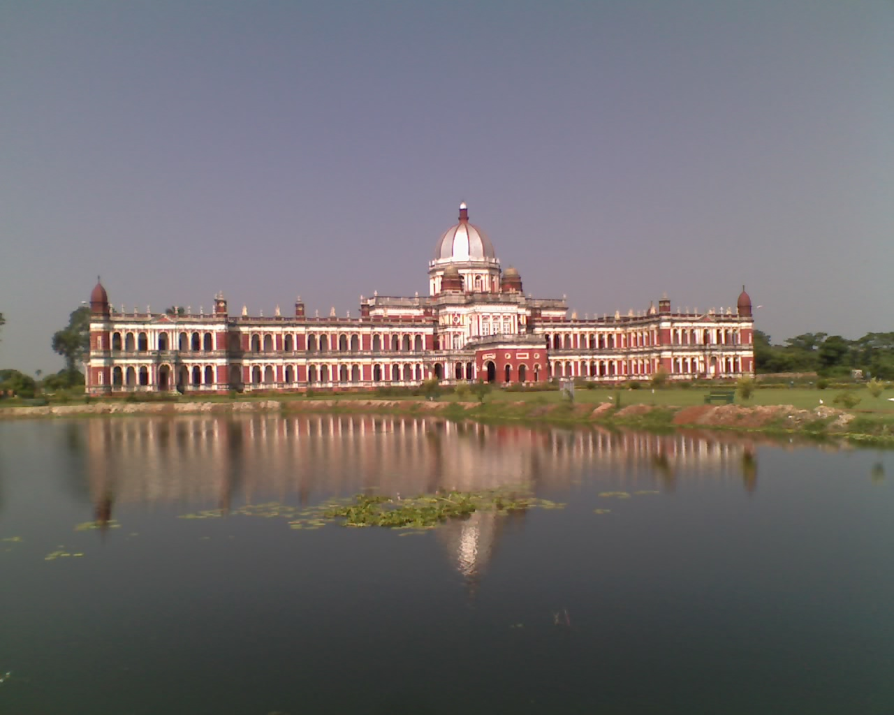 The Cooch Behar Palace